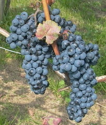 Close up cropping of original photo Image:Blaufränkisch.jpg by Ulrich Prokop, 15.Oktober 2005